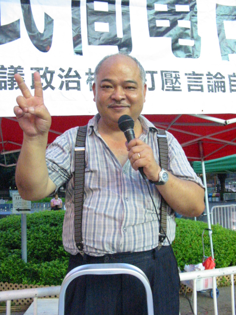 Kin-Shing "The Bull" Tsang is raising fund of helping victims of Sichuan Earthquake.